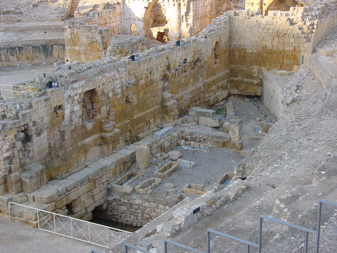 Tarragona. Fundations and burials in the romanic church built inside the roman amphitheater.